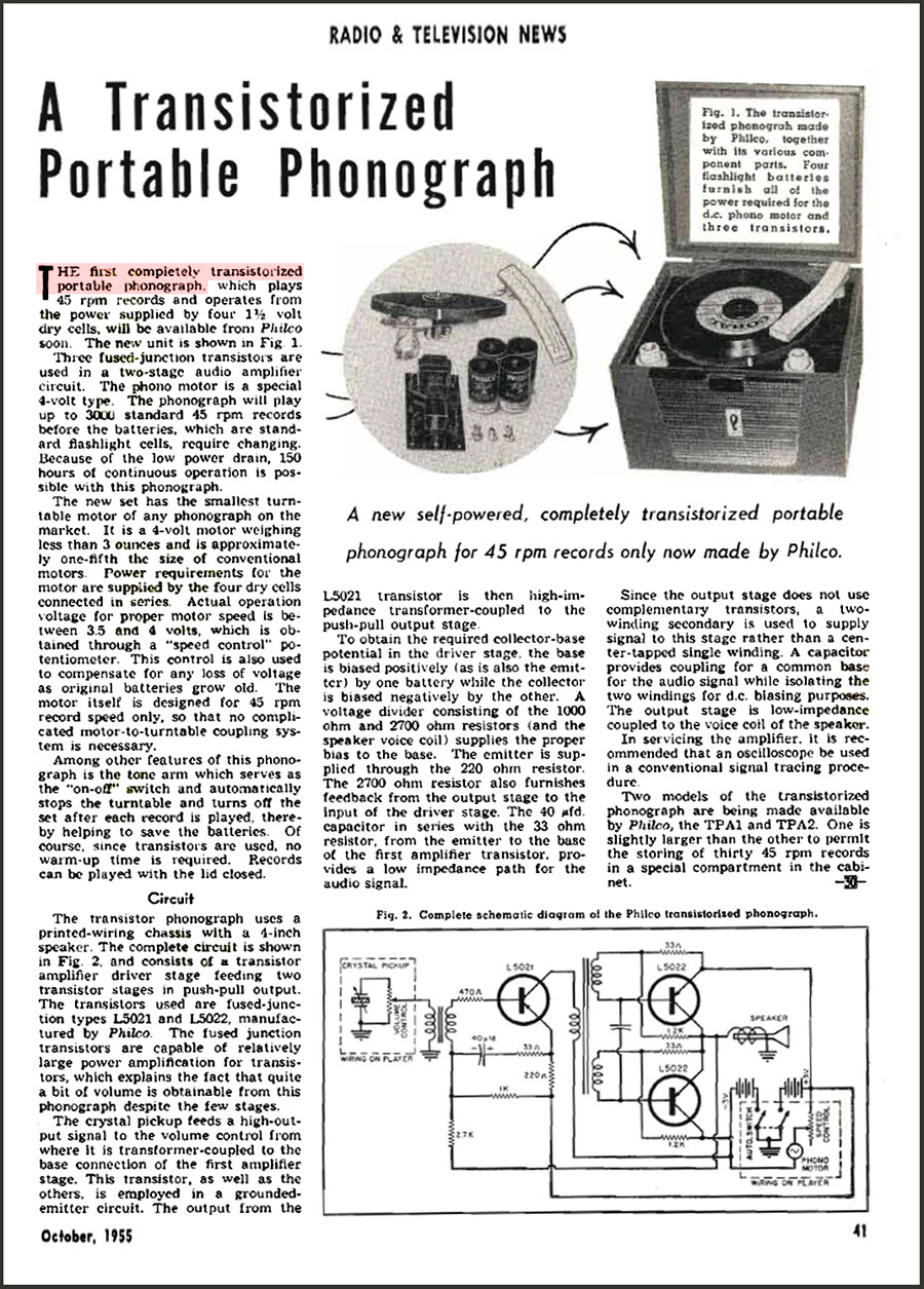 scanned page 41 of my Radio & Television News issue magazine. I also highlighted in red using Adobe Photoshop, the wording where the article says "The first completely transistorized phonograph".